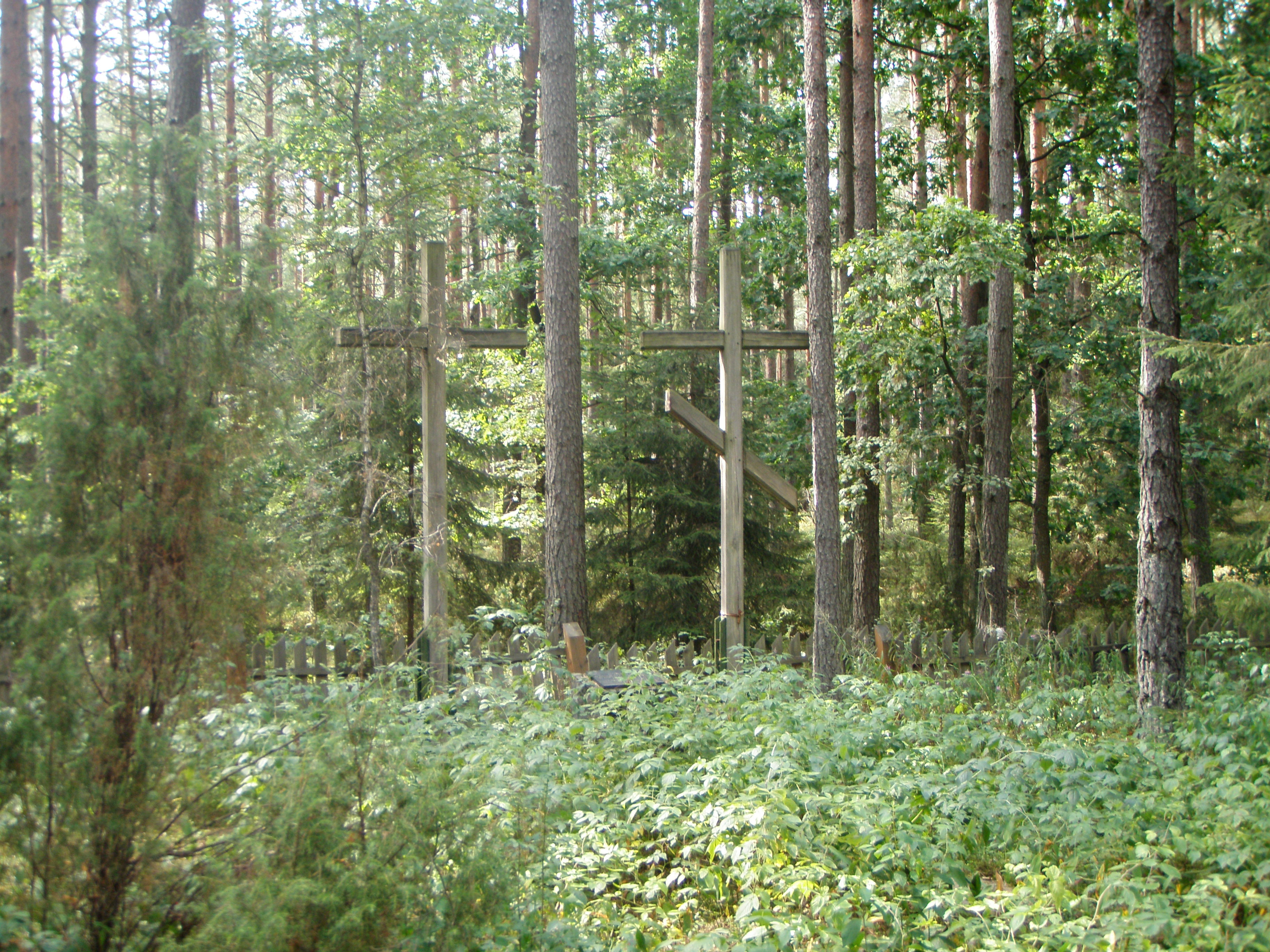 World War I cemetery in Augustów-Sajenek in Poland.